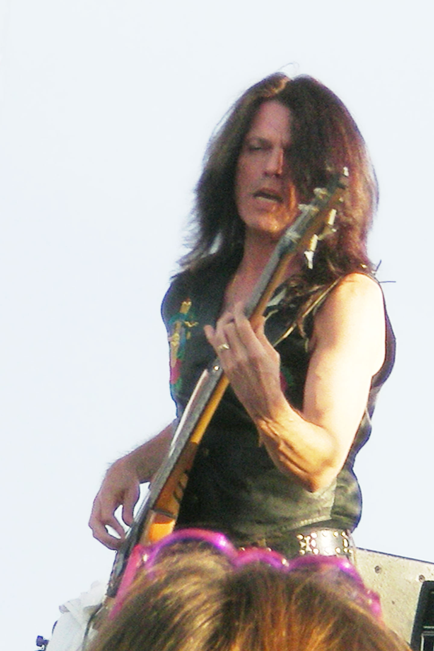 Rudy Sarzo with Blue Oyster Cult.